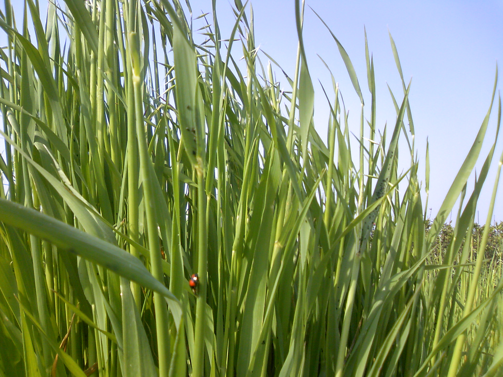 Avena sativa(oat) as banker plants(companion planting).In Saitama,Japan. Coccinellidae(Ladybug) come for having plant louses on oat.